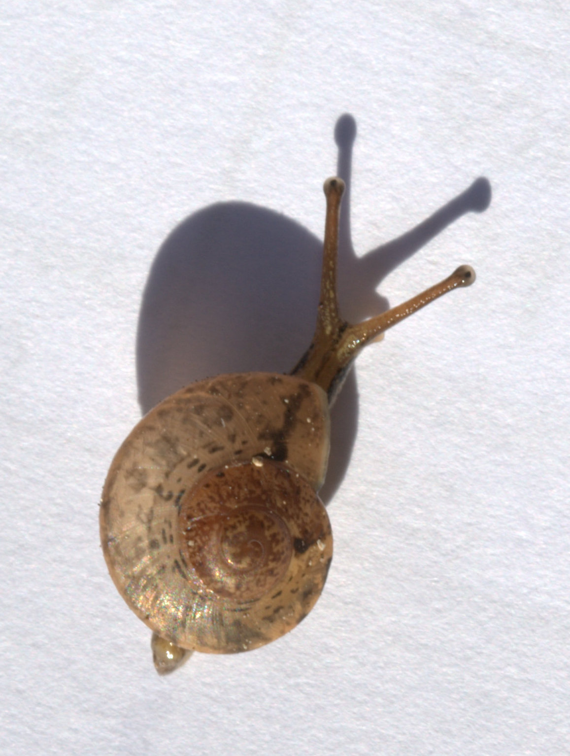 Gudeoconcha sophiae (juvenile) on Lord Howe Island.